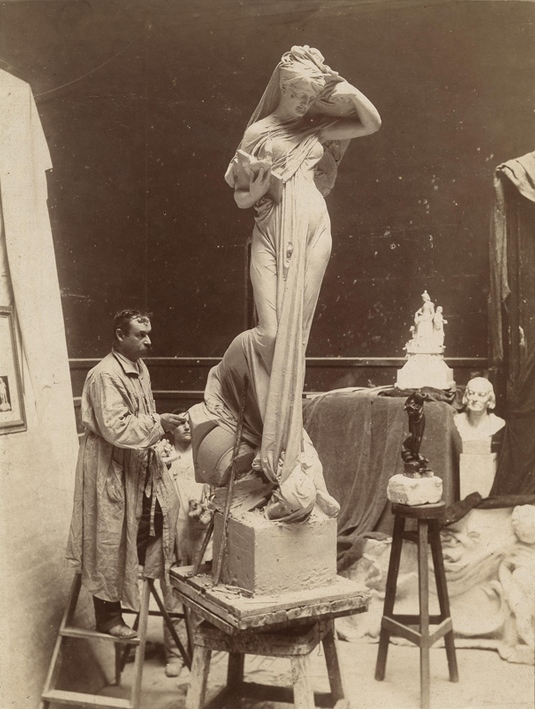 Fernando Miranda (1842-1925) in his studio with his model for The Spirit of Research, circa 1897, Archives of American Art, Smithsonian Institution. The Spirit of Research was installed in the courtyard of the Boston Public Library in 1898.